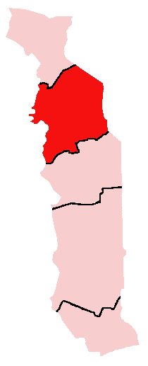 Map of Togo showing Kara Region; created with the GIMP. Made by User:Acntx.